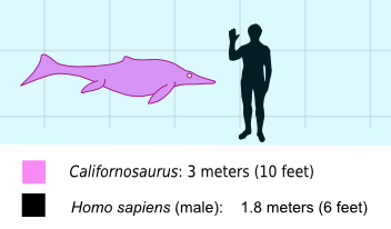 A comparison of the body sizes between an Californosaurus and an adult male human.